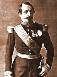 Napoleon III of France